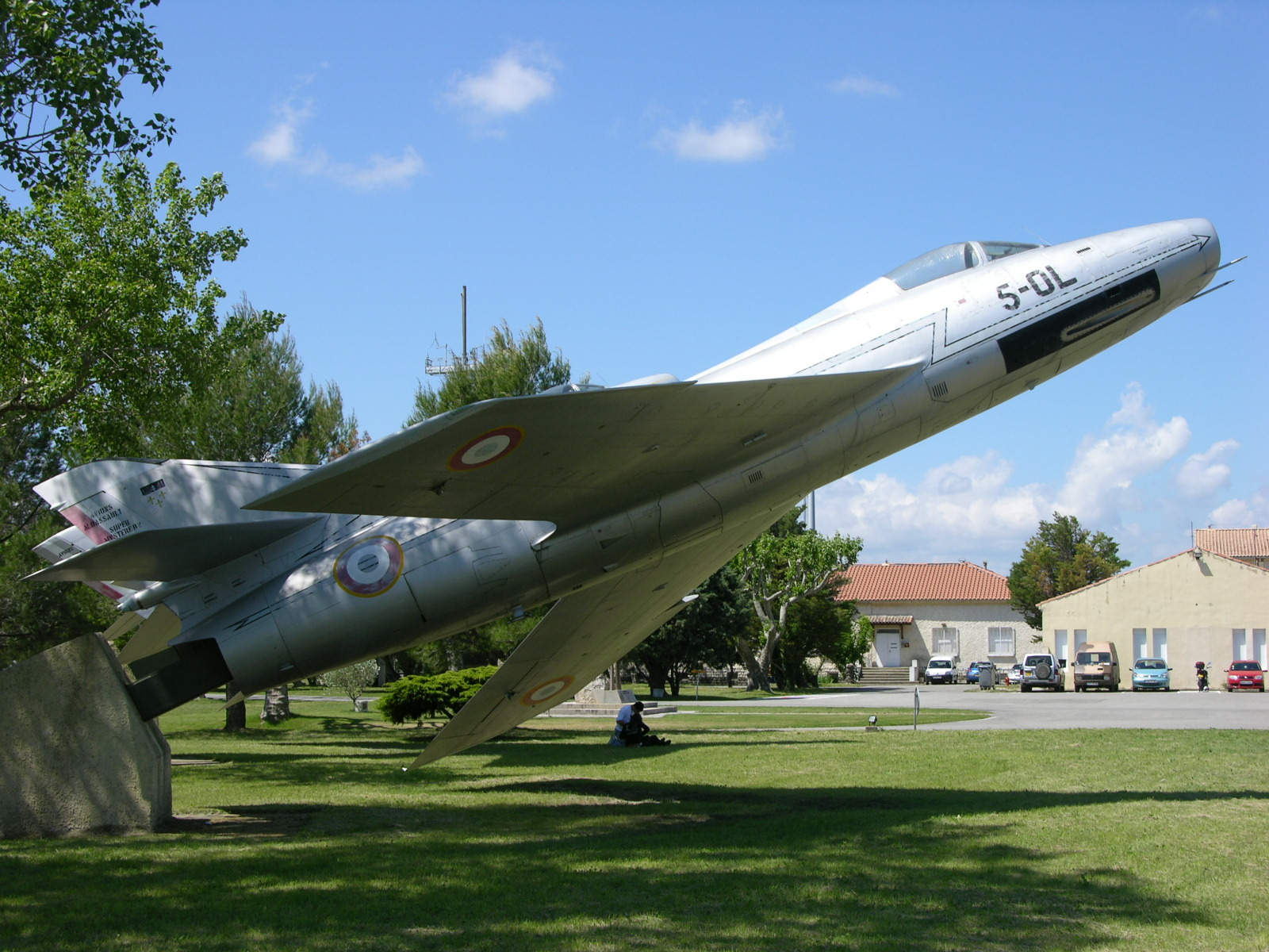 121 / 5-OL Super Mystère B2 in the colours of EC 02.005 "Ile de France" at the Orange Air Base open day in May 2008 The base has a nice collection of old aircraft as gate guards, or "Pots de fleurs" as I think the French call them. One of the first French jet fighters..